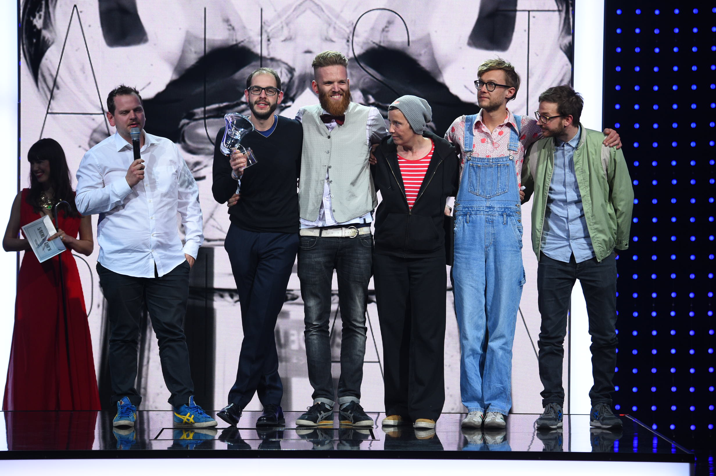 Amadeus Music Awards 2015,Volkstheater, Wien, 29.3.2015,5/8ERL IN EHR'N